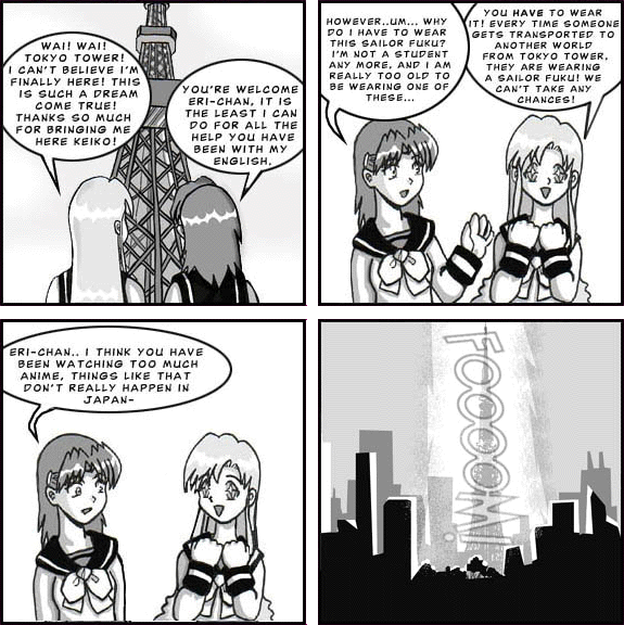 The first comic of Okashina Okashi from January 16, 2001.